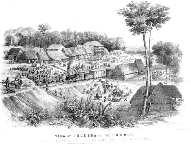 View of Culebra or the Summit, the Terminus of the Panama Railroad in Dec. 1854. Lithograph by Charles Parsons (1821-1910); Printed by Endicott & Co., N.Y., 1854. This depicts a portion of the Panama Railway still under construction. From [1]